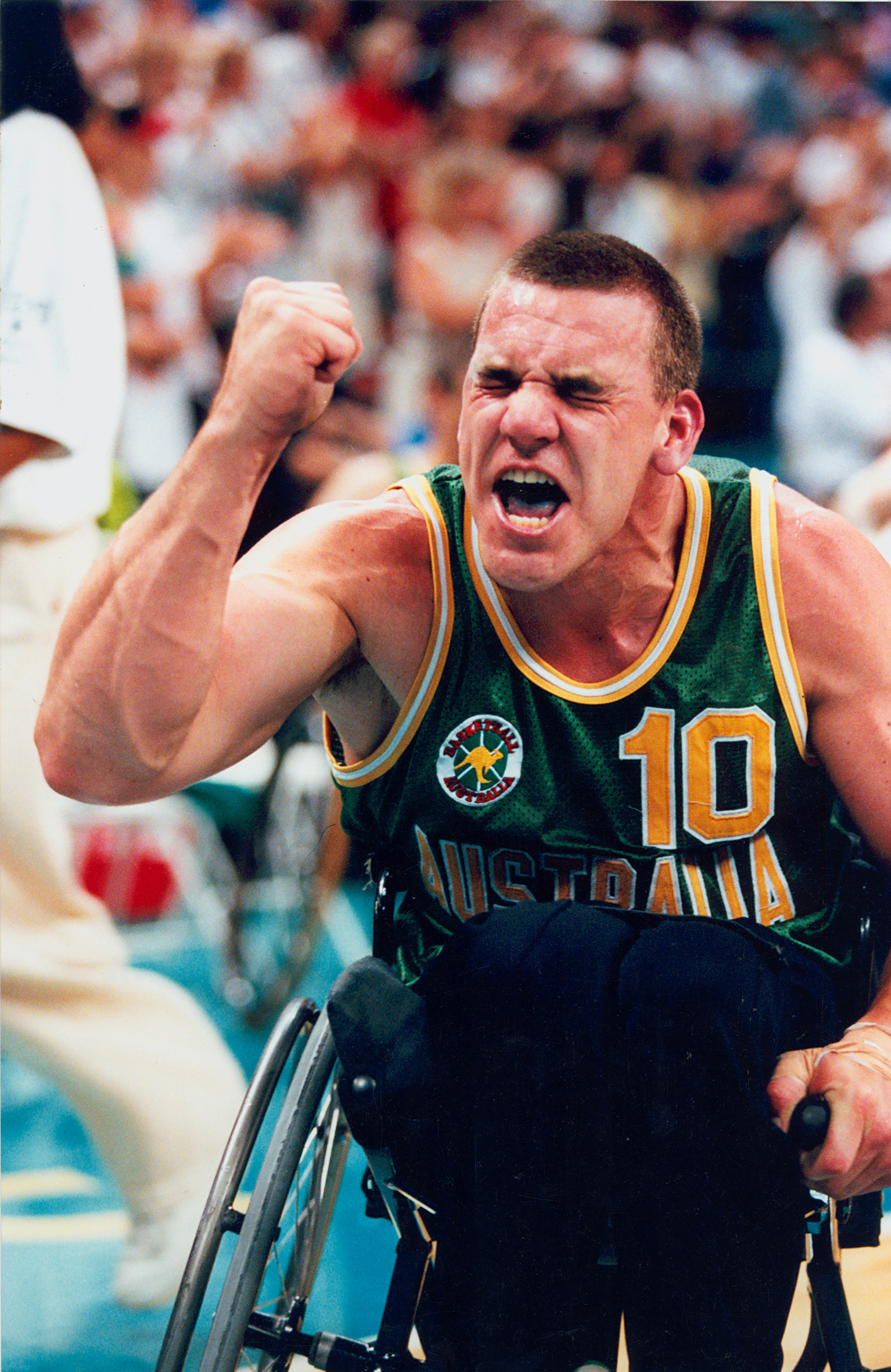 Australian men's wheelchair basketballer Nick Morris shows his emotion during the gold medal game against Great Britain at the 1996 Atlanta Paralympic Games